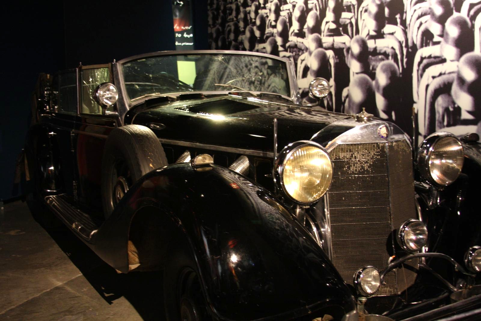 Adolf Hitler's Mercedes-Benz 770 (W 150) in the Canadian War Museum, Ottawa, Canada